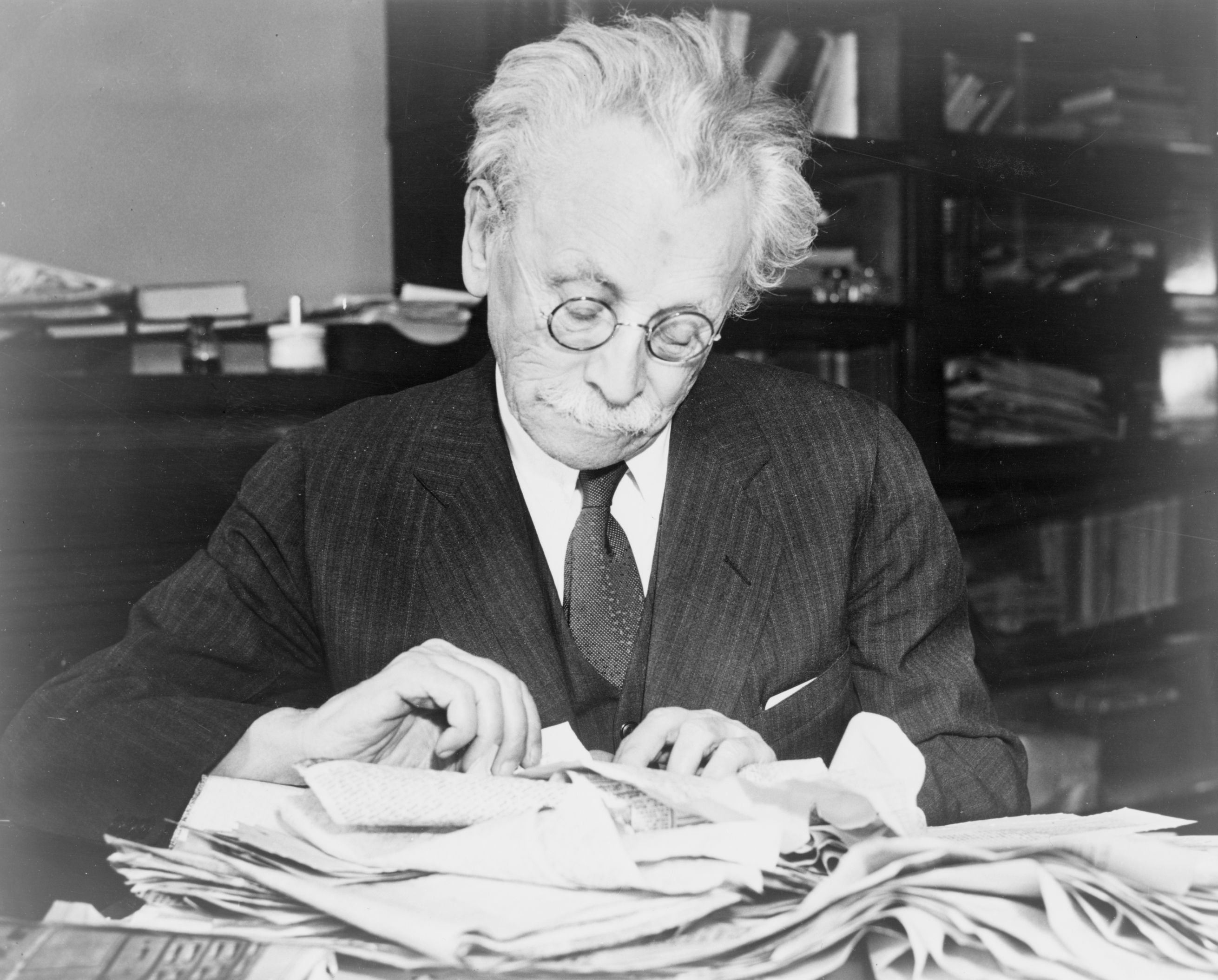 Abraham Cahan, half-length portrait, looking down at printed material on desk / World Telegram & Sun photo.